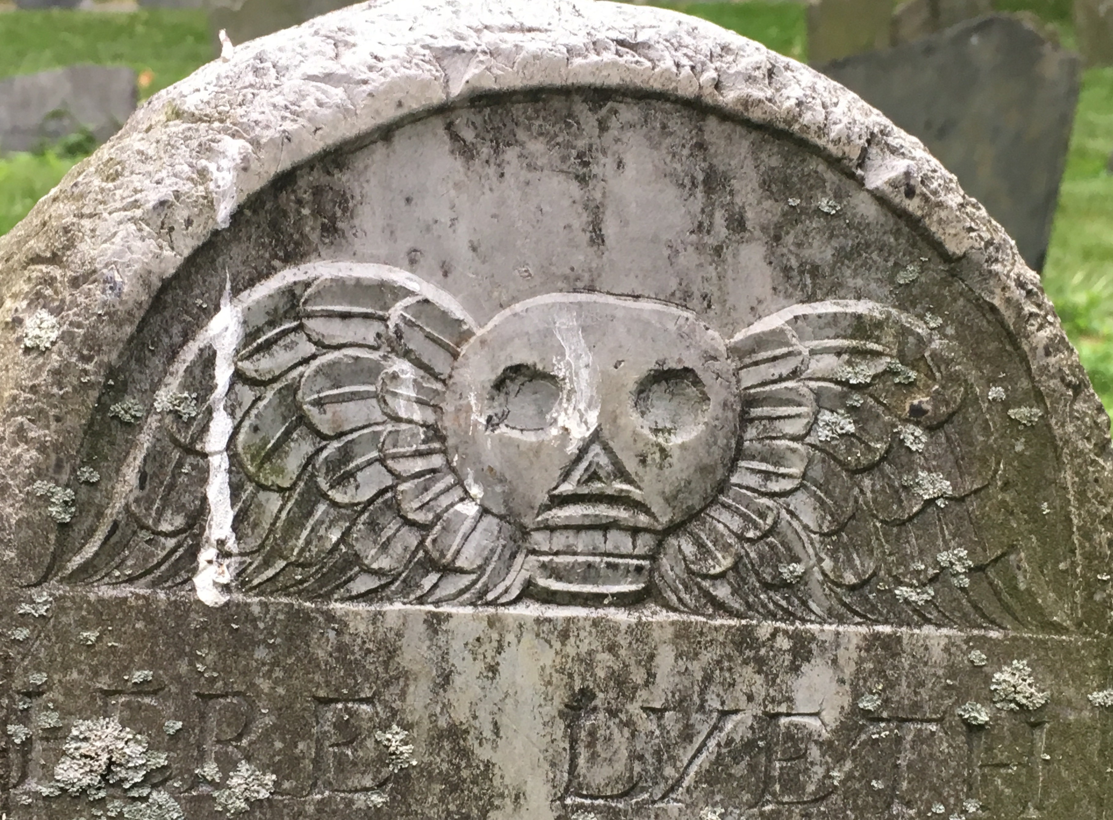 Headstone at Granary Burying Ground, Boston